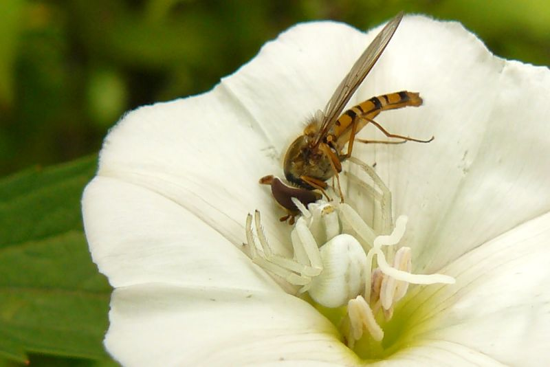 Misumena Vatia